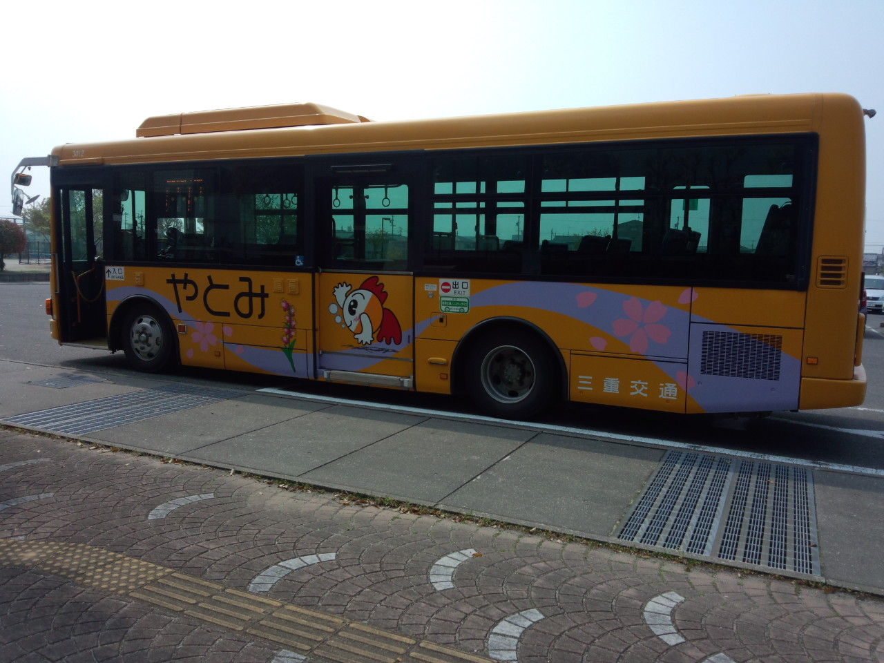 The community bus of Yatomi city. People called it "Kinchan-bus".